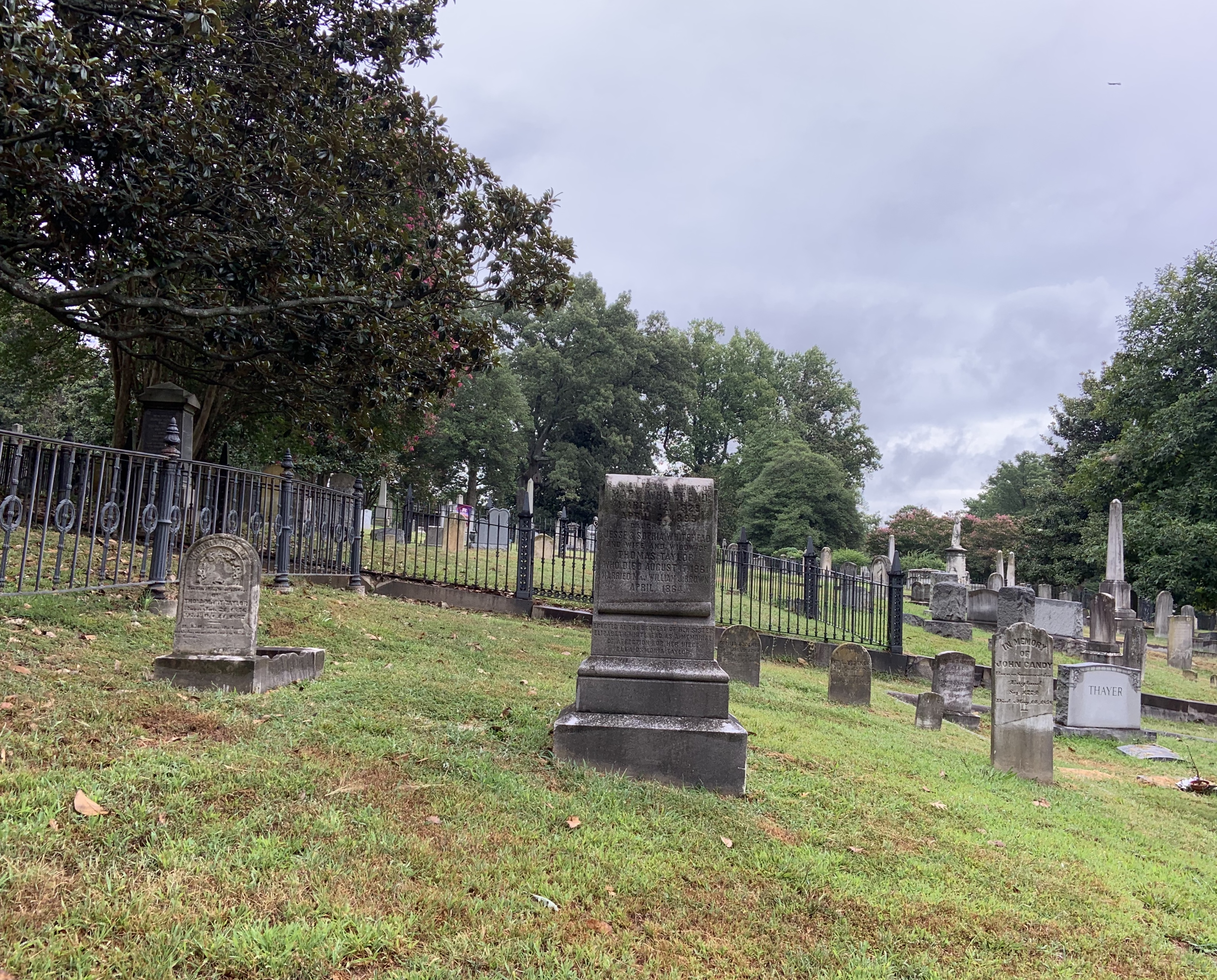 Bodeker family plot, located in Hollywood Cemetery, Richmond, Virginia, U.S. where Anna Whitehead Bodeker and family are interred.